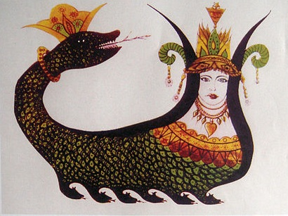 Shahmaran is a mythical creature from the folklore of southern, central and eastern Turkey, Iran and Iraq. The name of Shahmaran comes from words "Shah" and "Maran". "Shah" is the Iranian title for a king, primarily the leader of the Iranians and their land and "Mar" means snakes in Kurdish. Queen of snakes in Kurdish, legendary character in Kurdish folklore Kurdî: Şahmaran